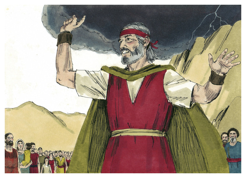 Biblical illustration of Book of Exodus Chapter 21